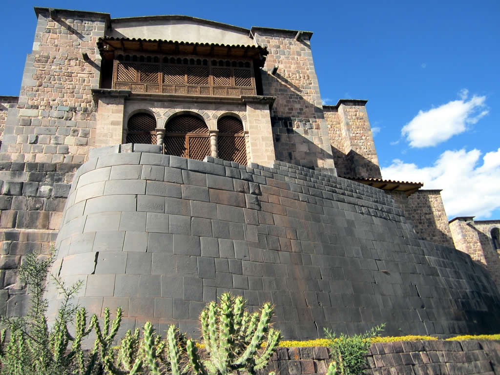 A surviving wall of Koricancha, the Inca Temple of the Sun, below the Domincan church in Cuzco, Peru.